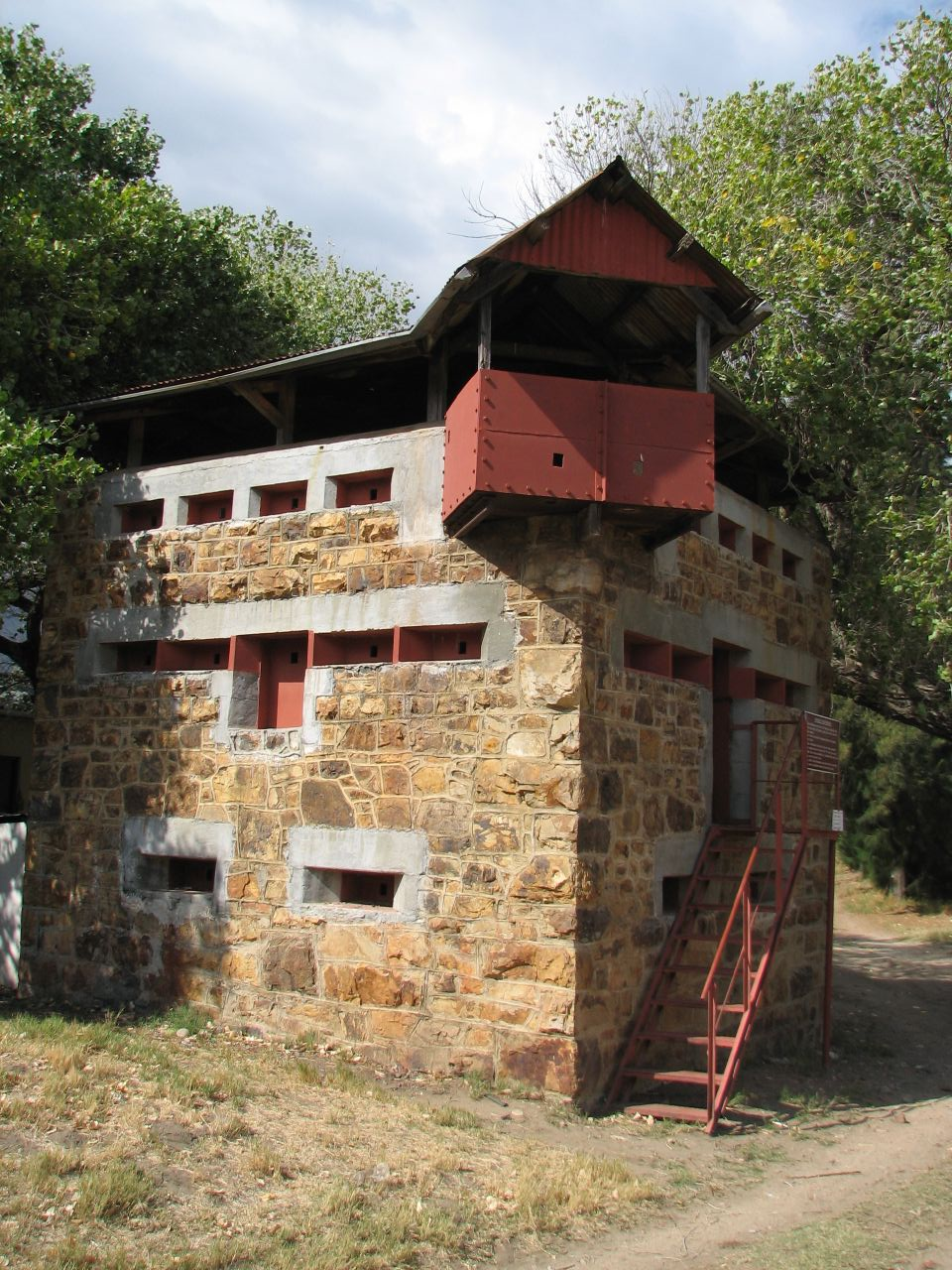 These Blockhouses were built in 1901 during the Anglo-Boer War. They were built by the British to protect the railway bridges from Boer attacks. The stone is local while the remaining materials were imported from Britain. These Blockhouses could house 20 men with water, ammunition and supplies stored on the lower floor. The "living" area was the middle floor and was accessible by a retractable ladder and the top floor was the "look-out" deck. Only 1000 of these Blockhouses were built and few have survived. They were very effective barriers and few saw any action. Fly to this location (Requires Google Earth)